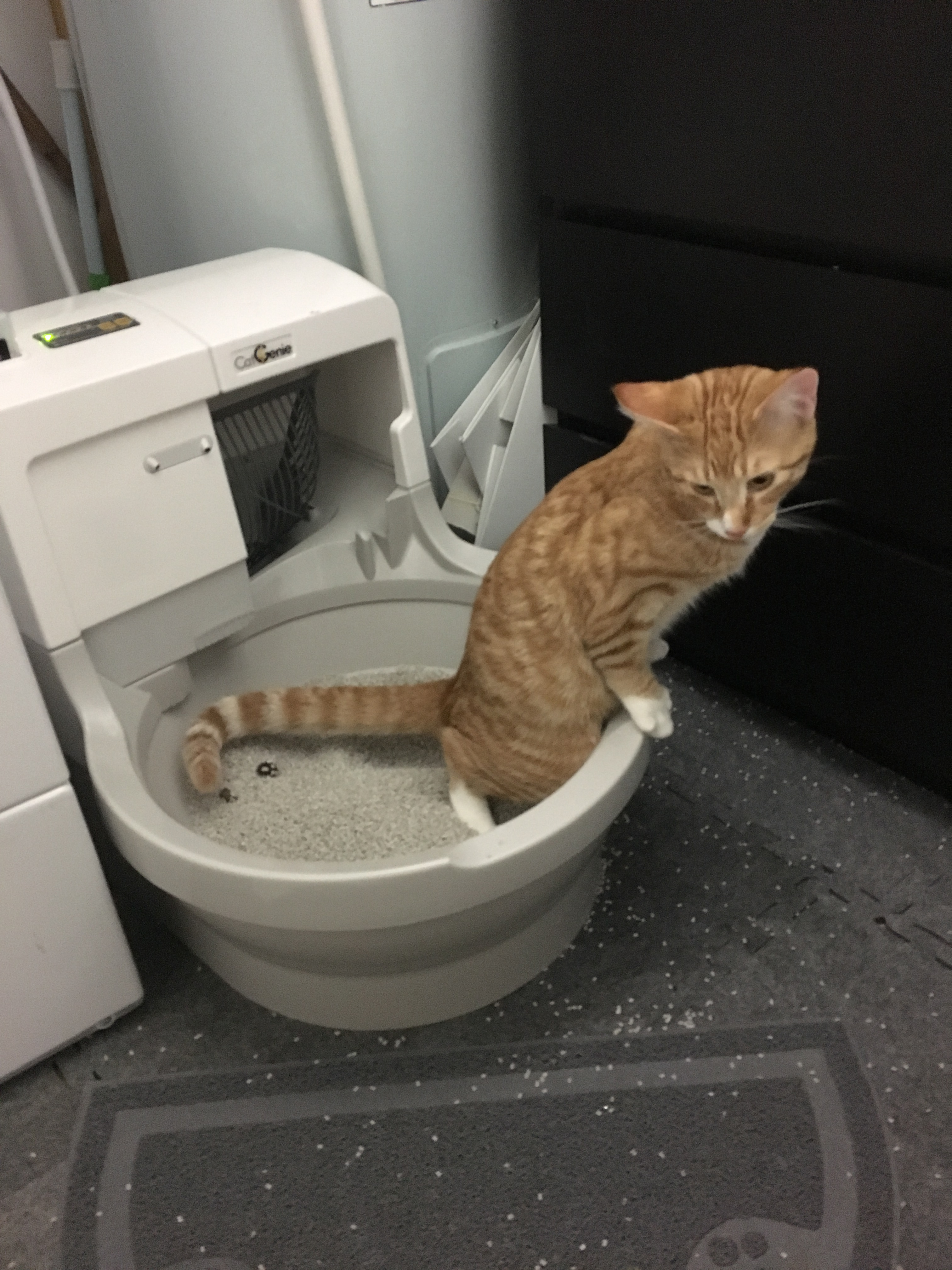 A cat using an automated fully-plumbed self cleaning litterbox. This litterbox connects to a cold water faucet to wash the granules, a laundry drain to drain water & waste, and a heating fan to dry the granules.